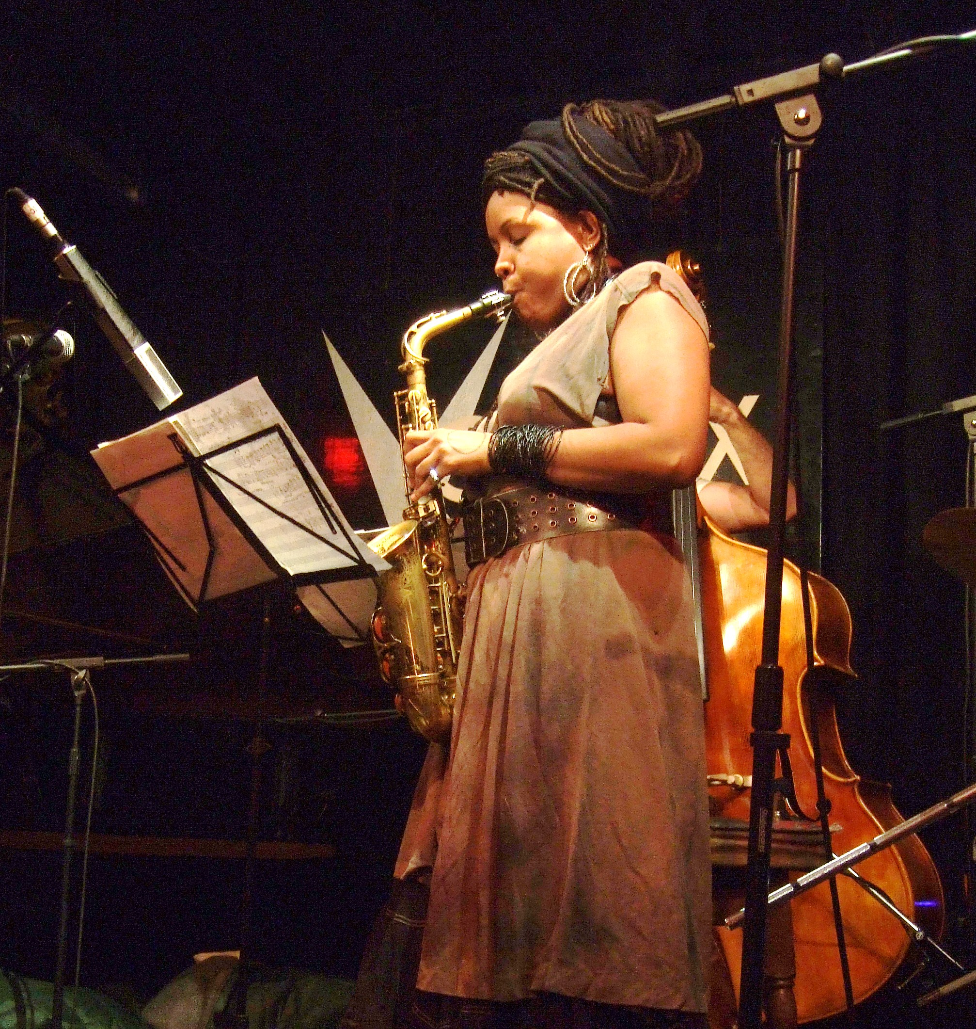 Matana Roberts performing at the Vortex Jazz Club on 2009-04-01.